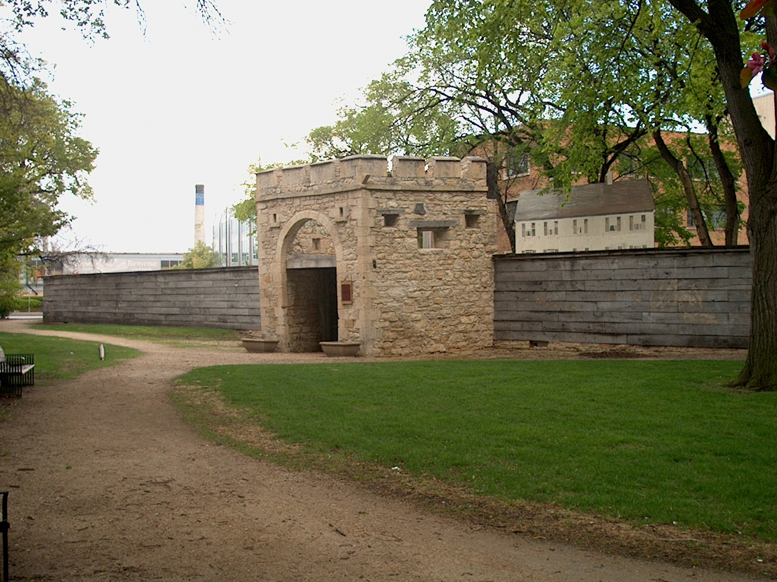 Upper Fort Garry, north gate.